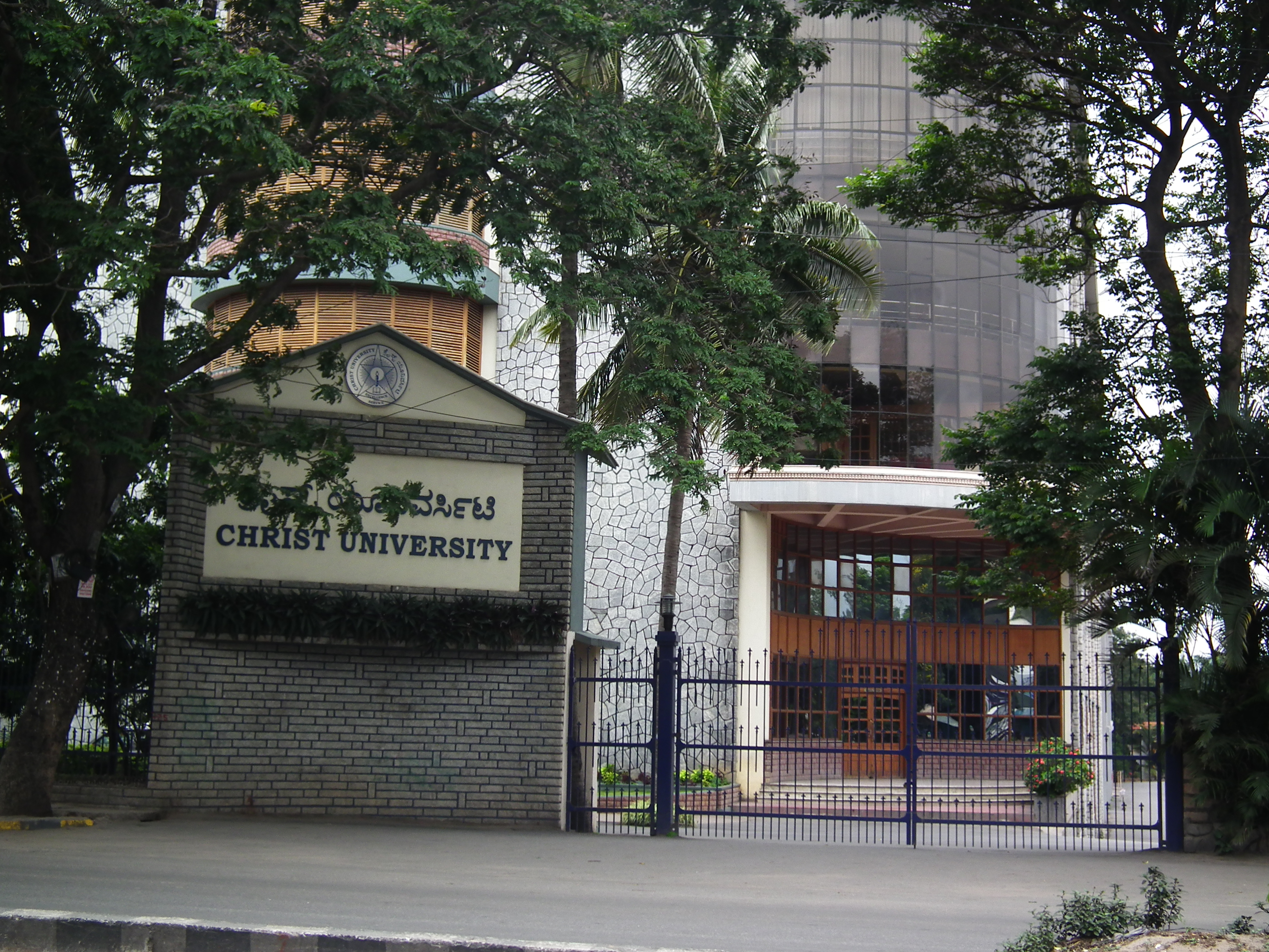 Christ University Entrance at Hosur road side, Bangalore